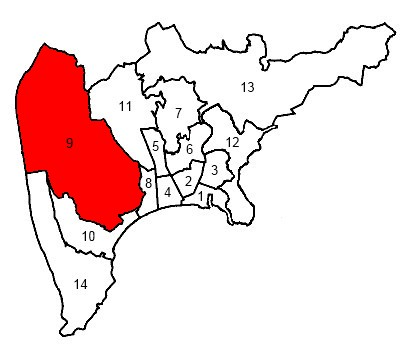 Location of canton of Nice-9 in the city of Nice, Alpes-Maritimes, France.